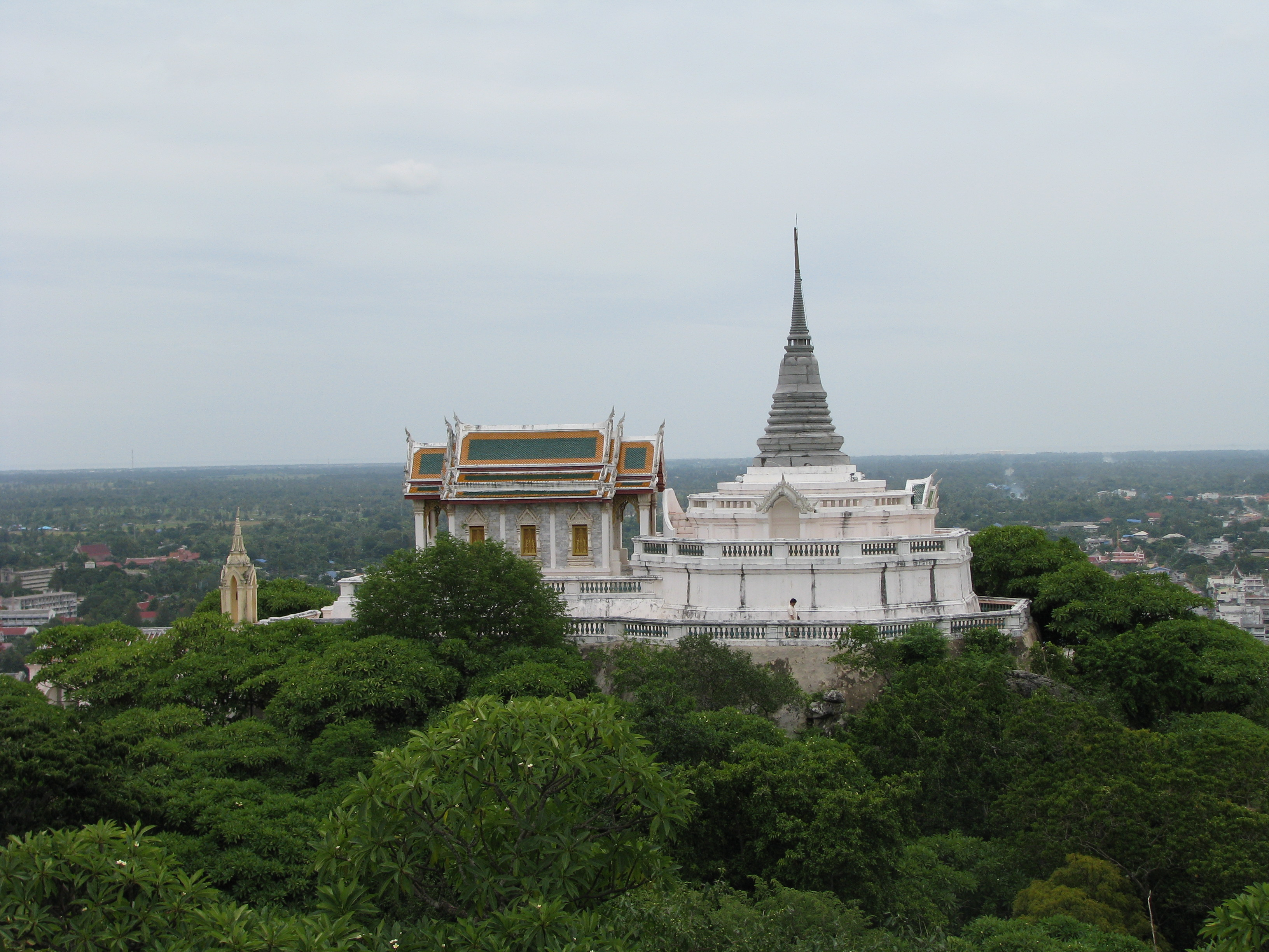 A view from the top.